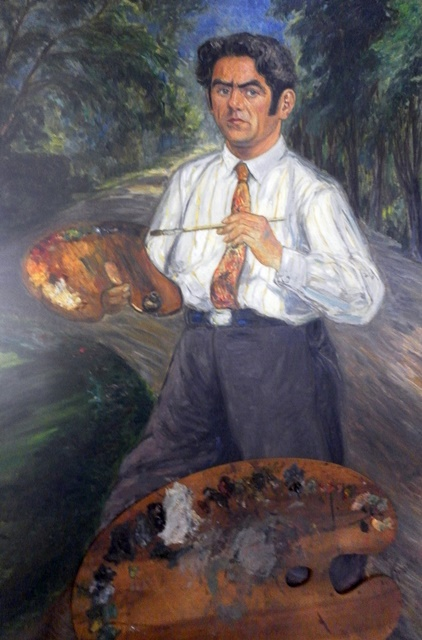 Selbstporträt Hermann R.O. Knothe Bad Elster